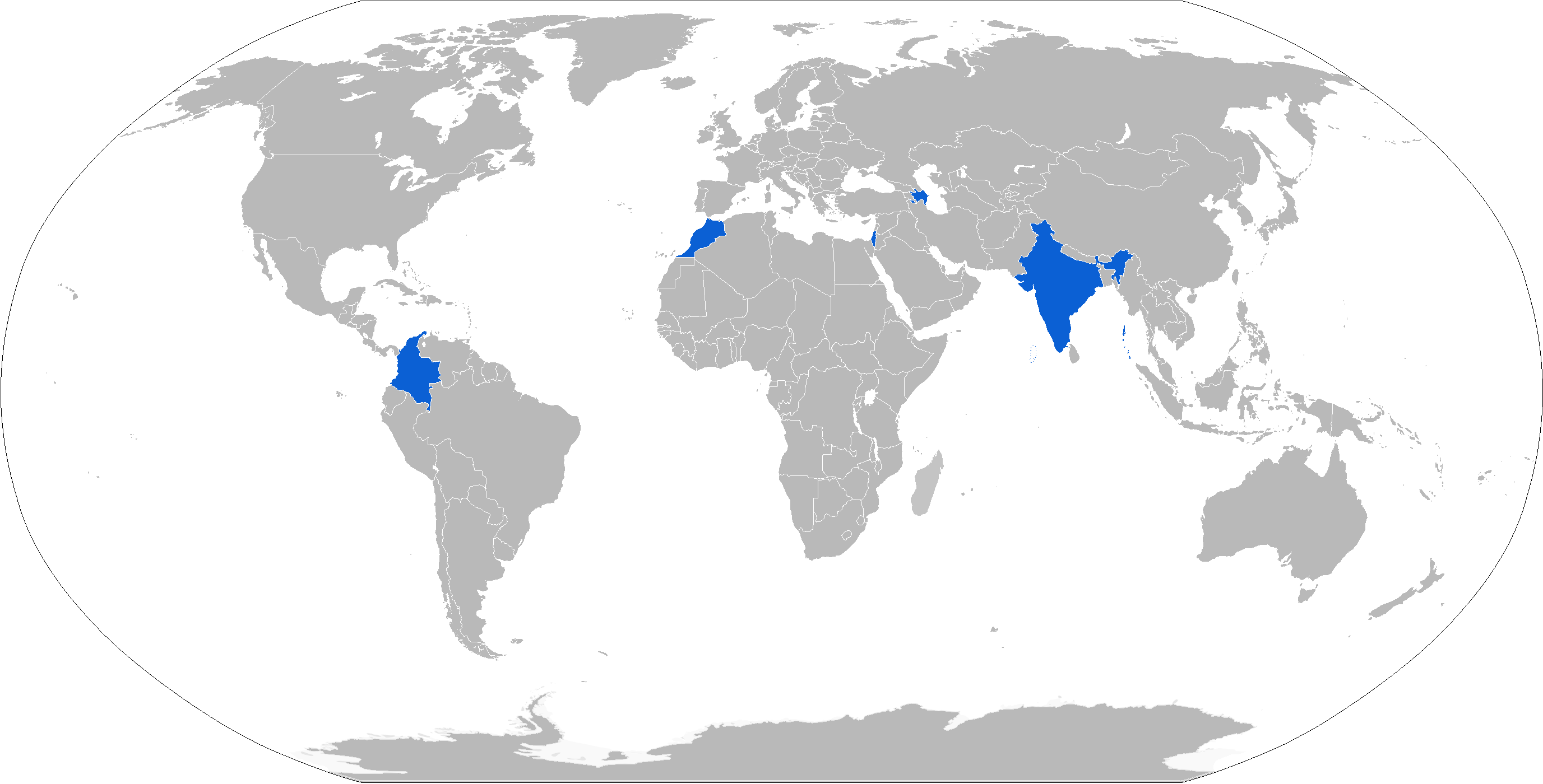 Map with Barak 8 operators in blue